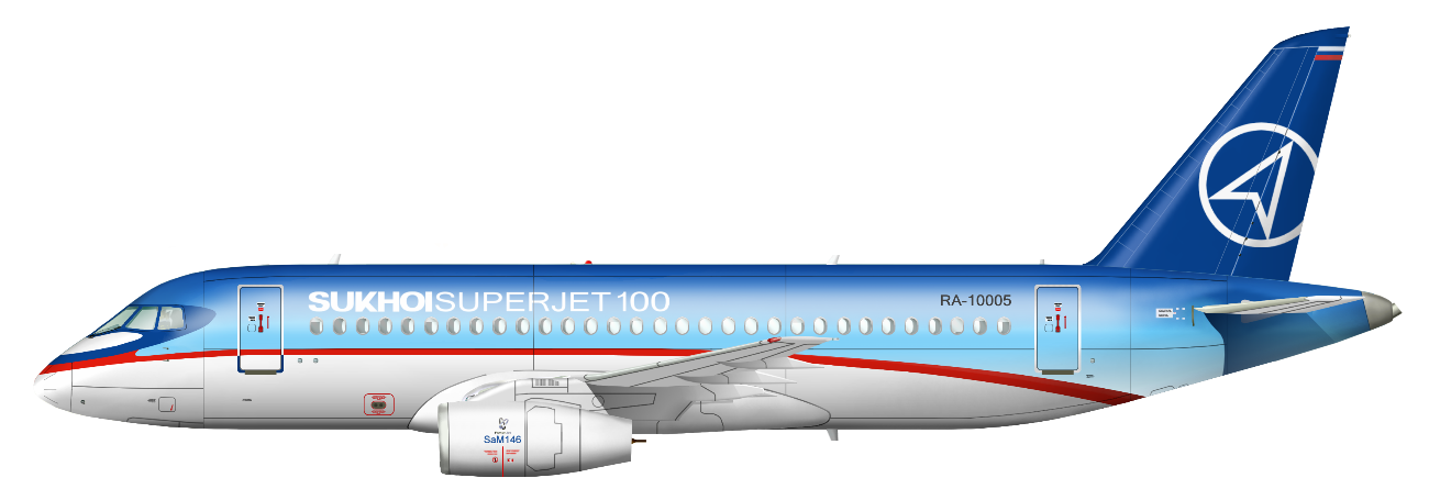 Profile drawing of Sukhoi Superjet 100-95 in the company's Superjet livery.